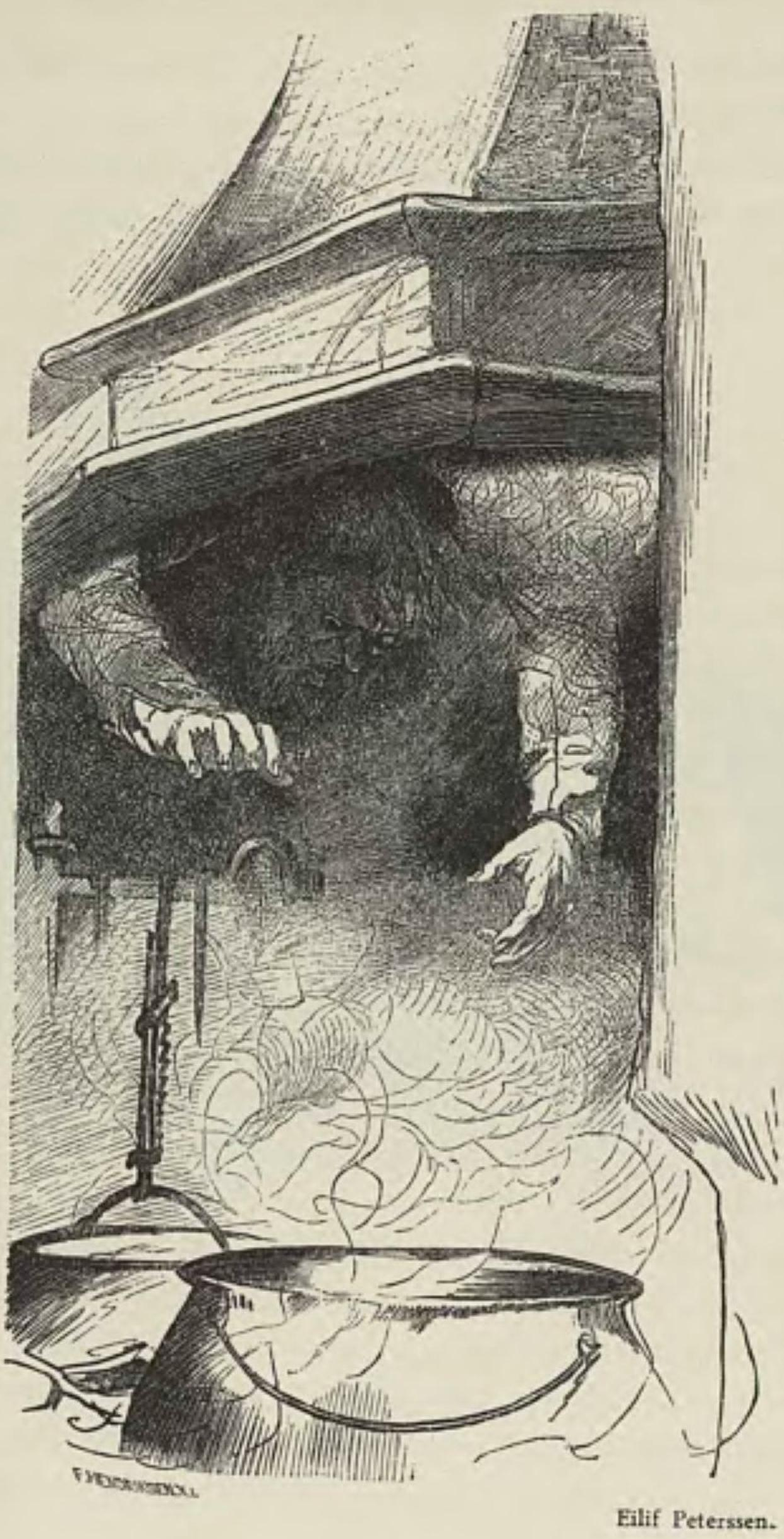 Illustration from page 13 in "Eventyr" by Asbjørnsen and Moe.